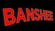 Logo for the US television show Banshee